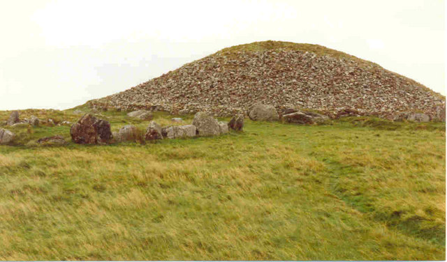 Summit of Slieve na Calliagh